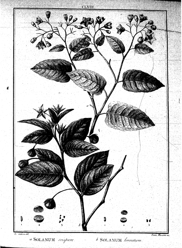 Solanum crispum (a) (haut) et Solanum lineatum (b) (bas)